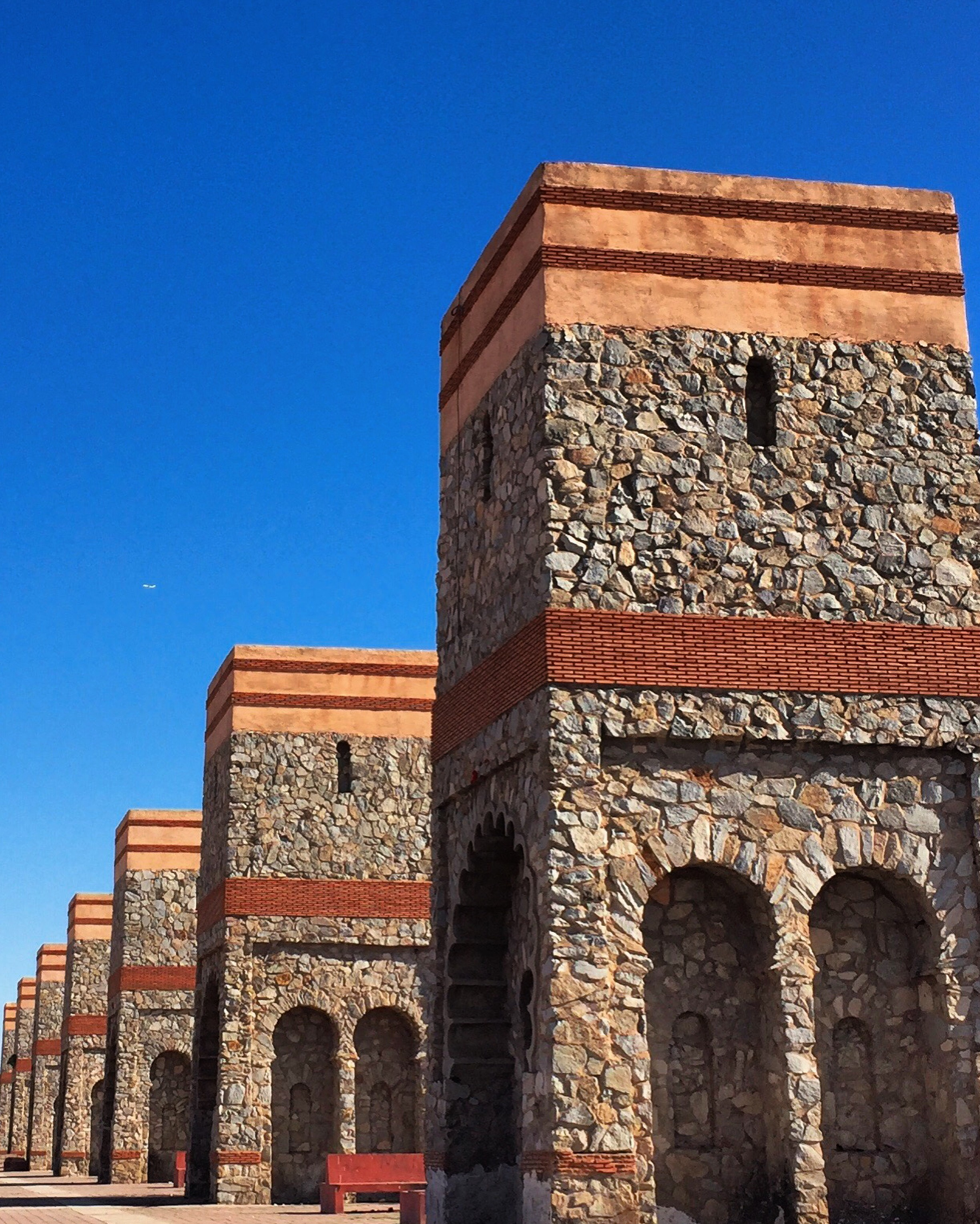 A view of the Monument of the Seven Saints of Marrakesh near Bab Doukkala in Marrakesh, Morocco